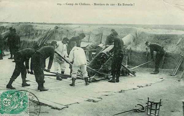 Postcard showing French Mortier de 220 mm of 1880, Camp de Châlons